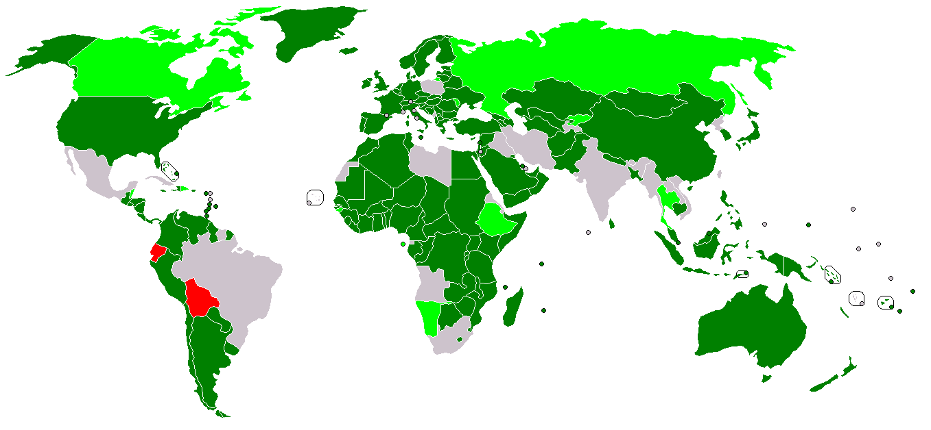 Dark green - in force; light green - signed; red - withdrawn